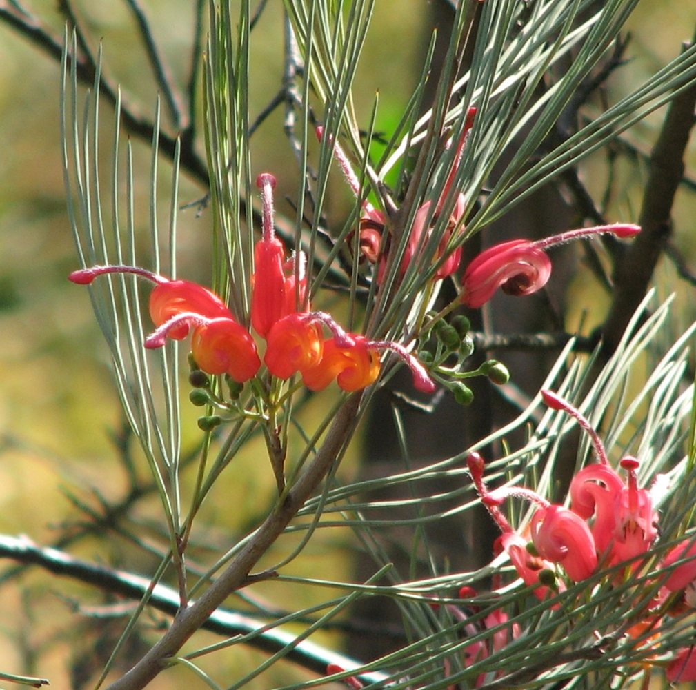 Grevillea erectiloba (cultivated, labelled), Maranoa Gardens, Balwyn, Victoria, Australia